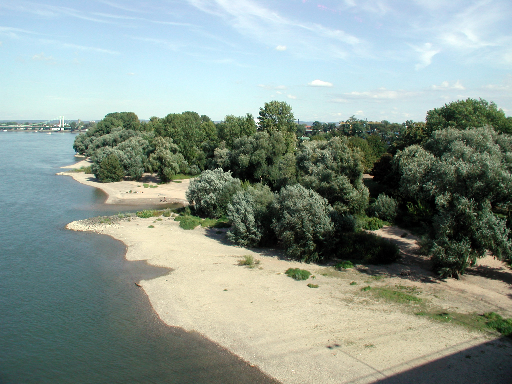 The Cologne, Rheinpark is a municipal garden in Köln-Deutz,Germany.